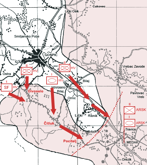 Balkan War/Croatia War/Movements of Croatian forces, Operation Medak pocket.